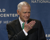 Former Senator Mark Hatfield of Oregon at dedication of NIH facility